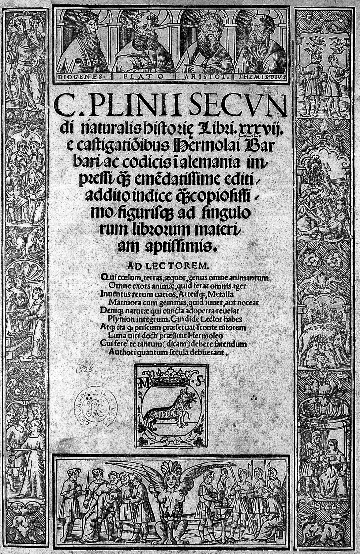 Naturalis historae libri xxxvii... Rare Books Keywords: Natural History; Caius Plinius Secundus